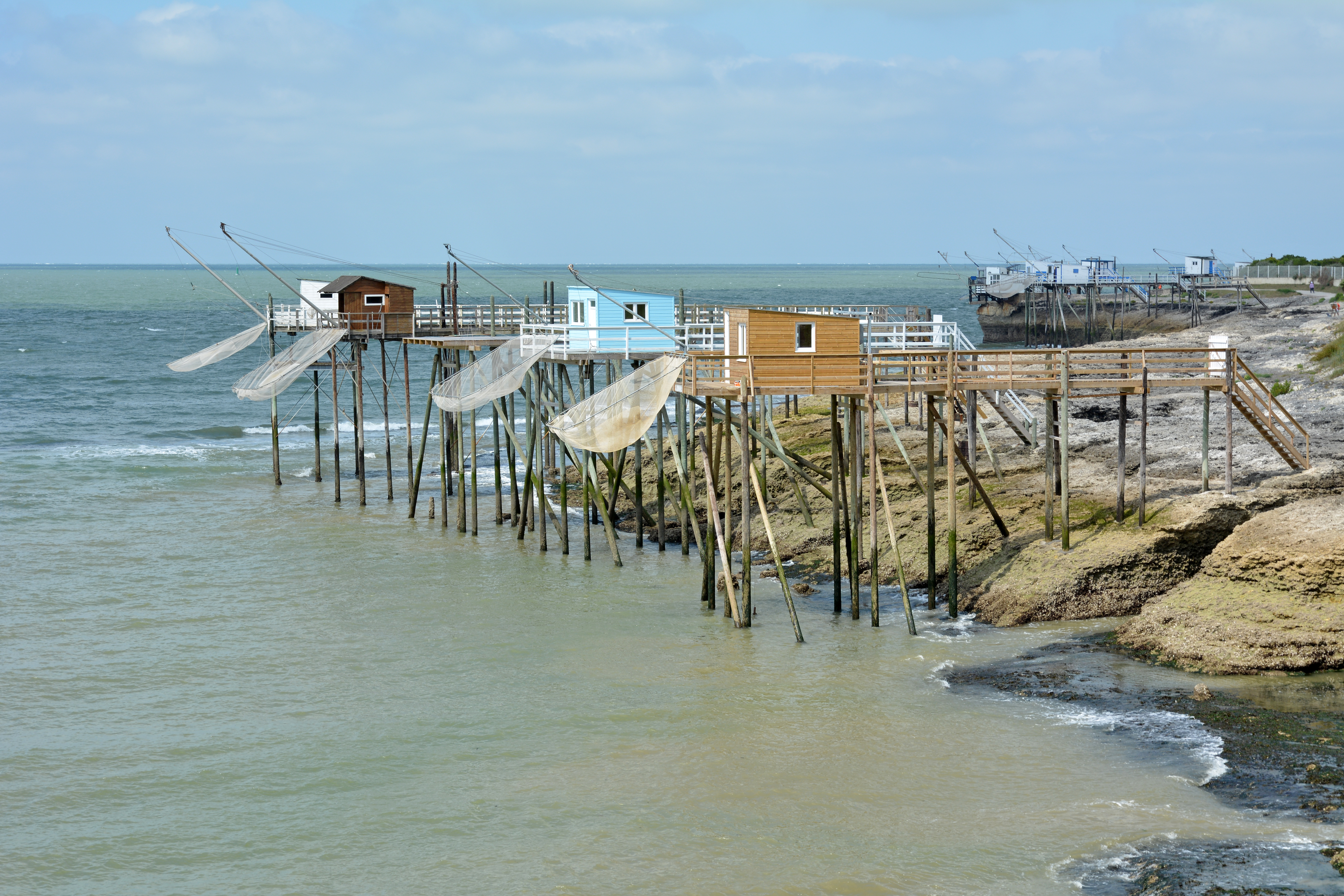 Carrelets in Saint-Palais-sur-Mer, Charente-Maritime France